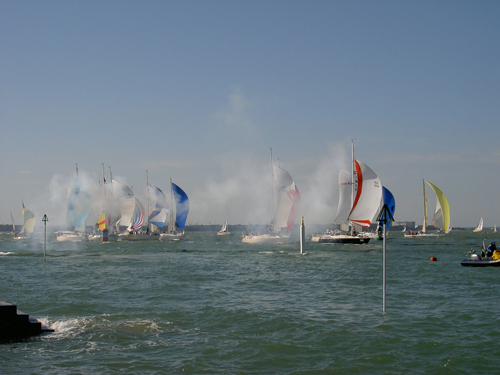 Yachts racing in the Solent during Cowes Week in 2003, most with their colourful spinnakers up.